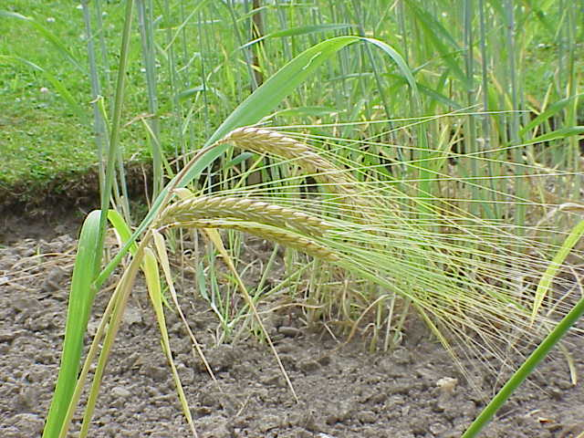 Species: Hordeum distichon Family: Poaceae Image No. 2